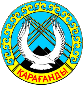 Current emblem of Karaganda city in the Republic of Kazakhstan